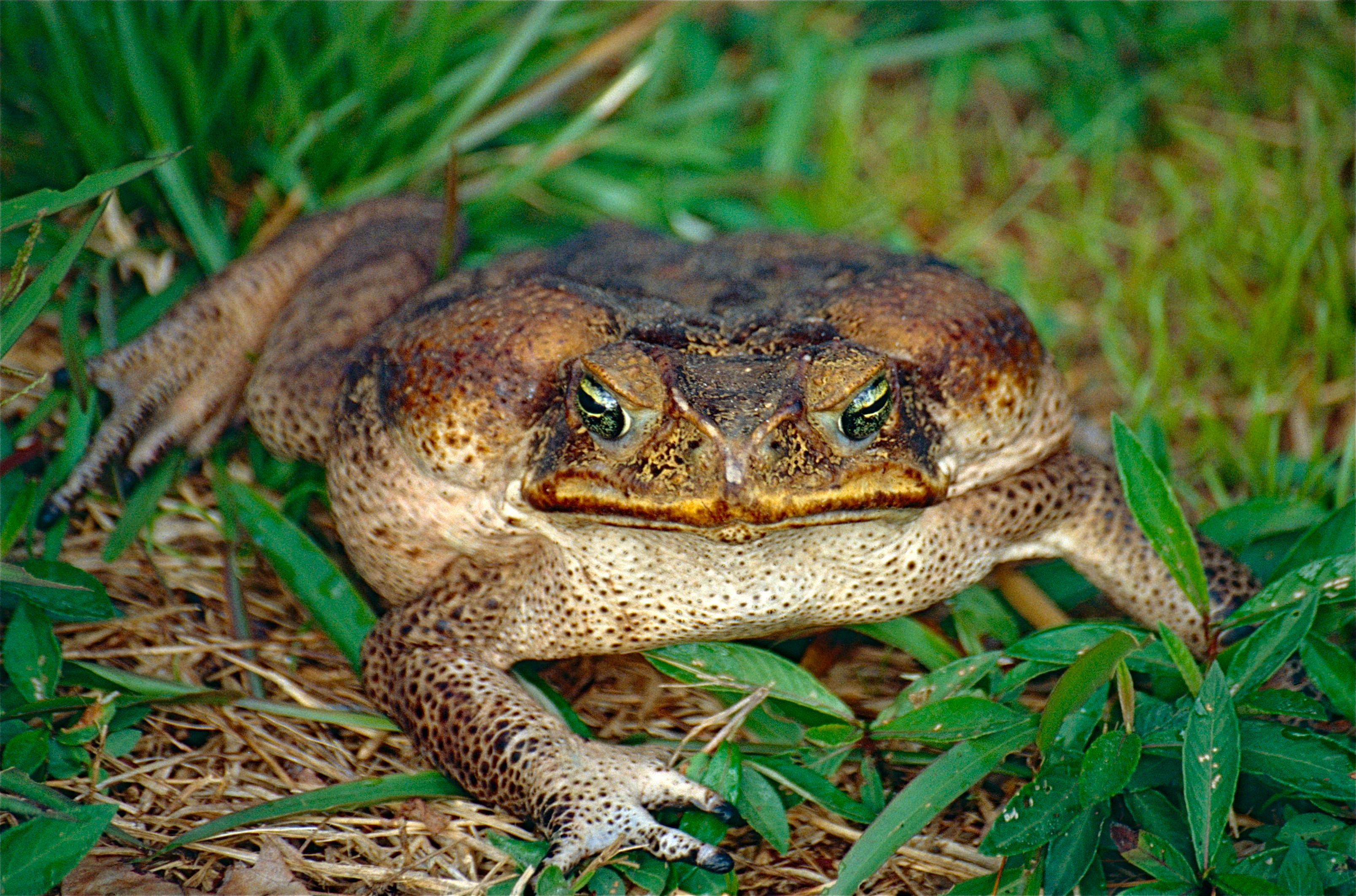 Saül, Guyane, FRANCE Scanned Slide from 2000